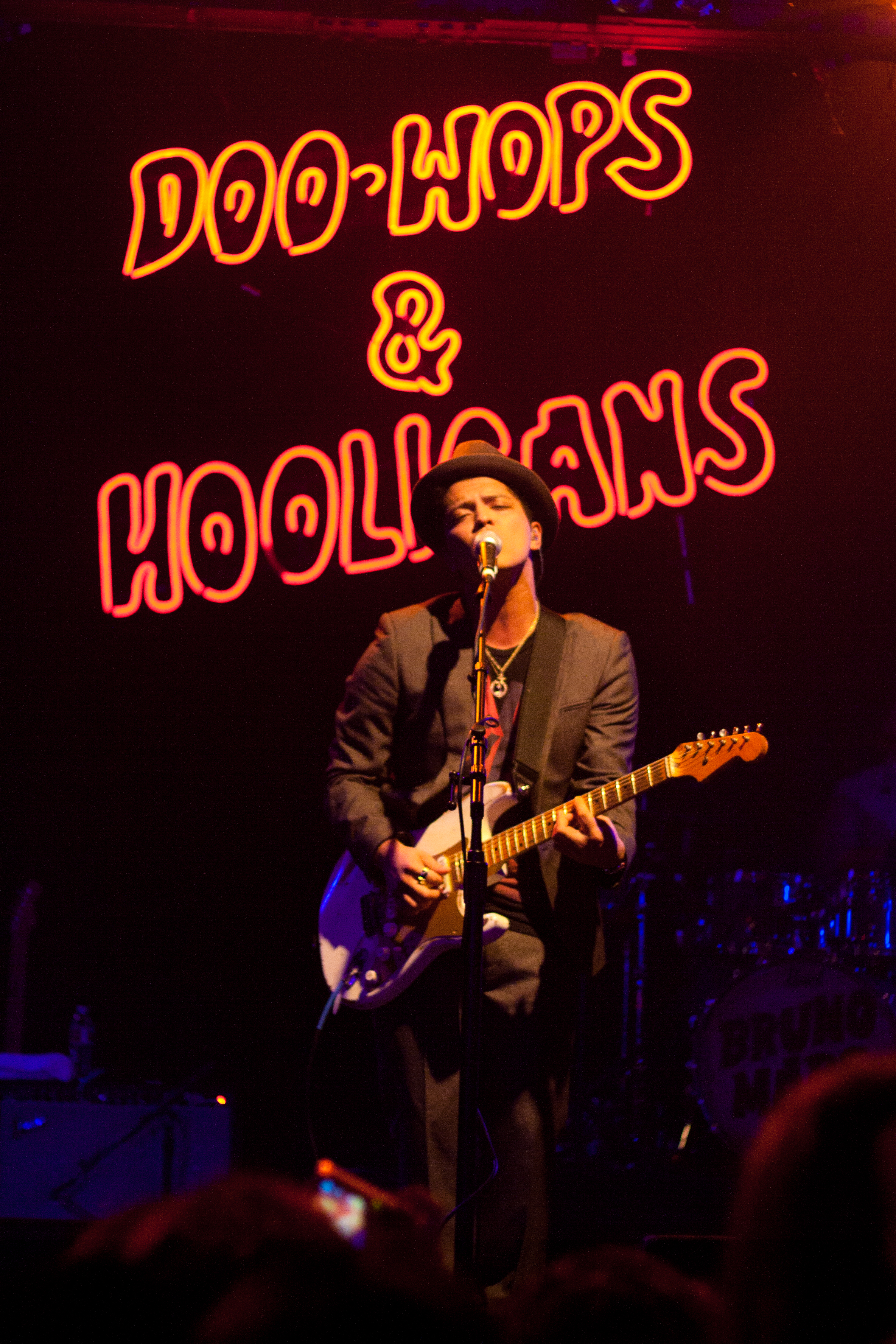 Warehouse Live